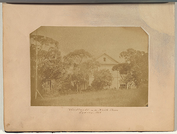 This is an image of a historically significant building leased by Thomas Jeffrey in Kirribilli AUSTRALASIAN ART: Louisa HOW 1821 England – Sydney, Australia 1893 to Australia 28 November 1849 Port Phillip, Melbourne 1857 to Sydney Woodlands: from an Untitled Album Woodlands, North Shore, Sydney 1858 printed image 15.8 h x 17.7 w cm Purchased 1982 Accession No: NGA 82.1158.4